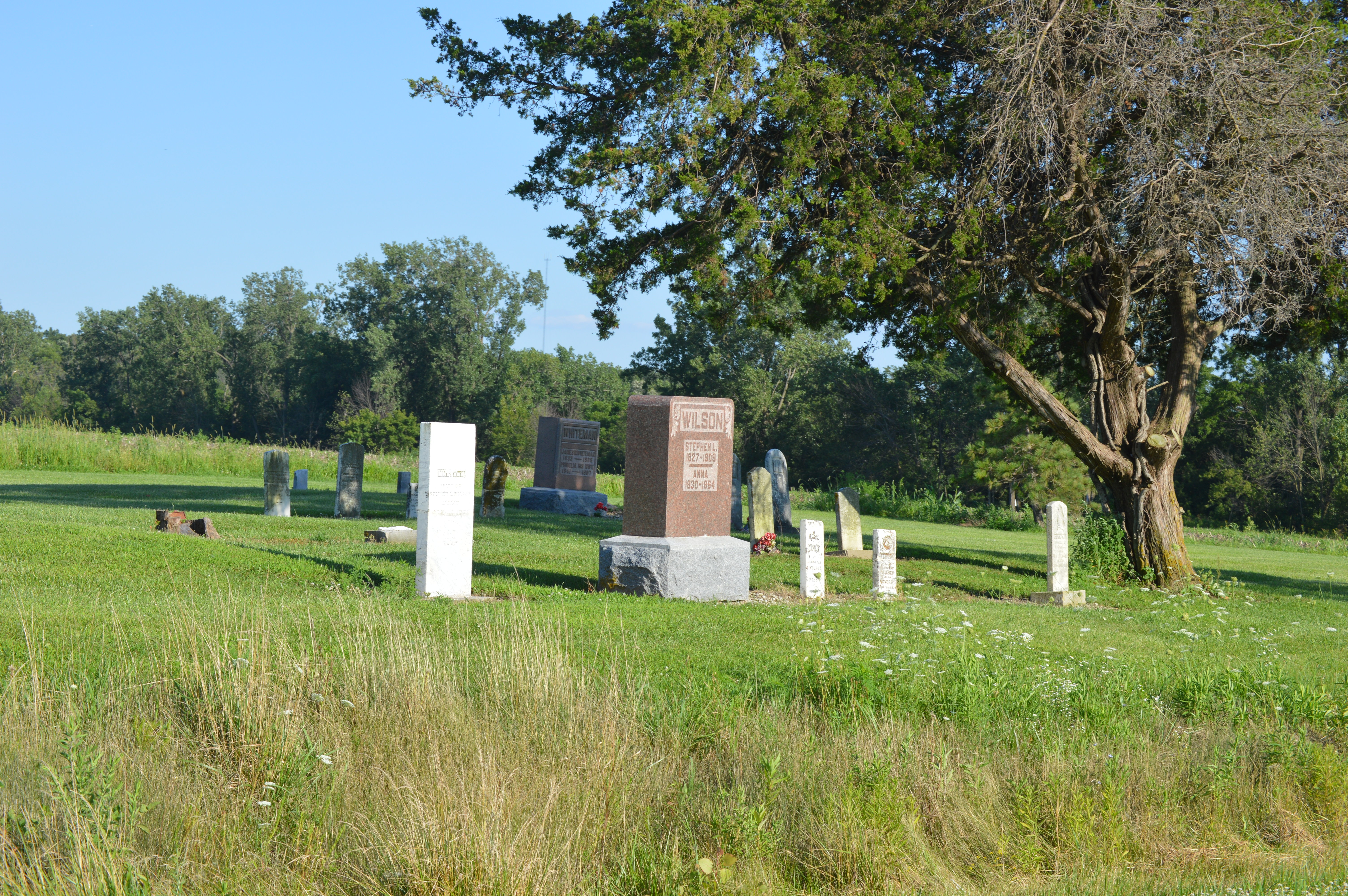 Overview from the northwest of the Old Baptist Cemetery, located along State Road 67 at the County Road 350E junction, east of Bryant, in Bearcreek Township, Jay County, Indiana, United States.